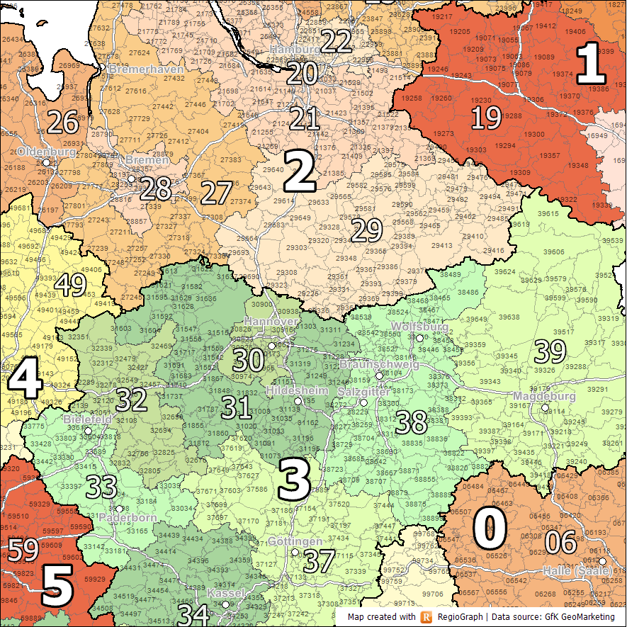 Postcode map example, showing the hierarchical structure of a postcode system; here: Hannover greater area, Germany. The first digit describes a "postcode zone", the first two digits describe "postcode regions" etc.